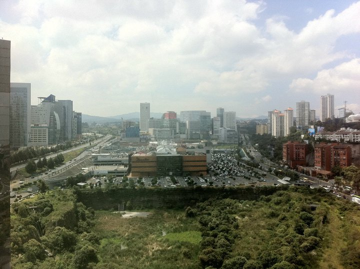 Centro Commercial Santa Fe, Ciudad de Mexico, Mexico DF